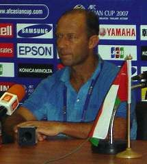 Oman Football coach Gabriel Calderon at the post match press conference.